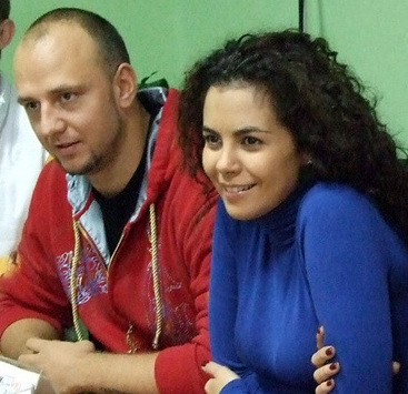 Tour «With Ukraine in my heart» to support Yulia Tymoshenko